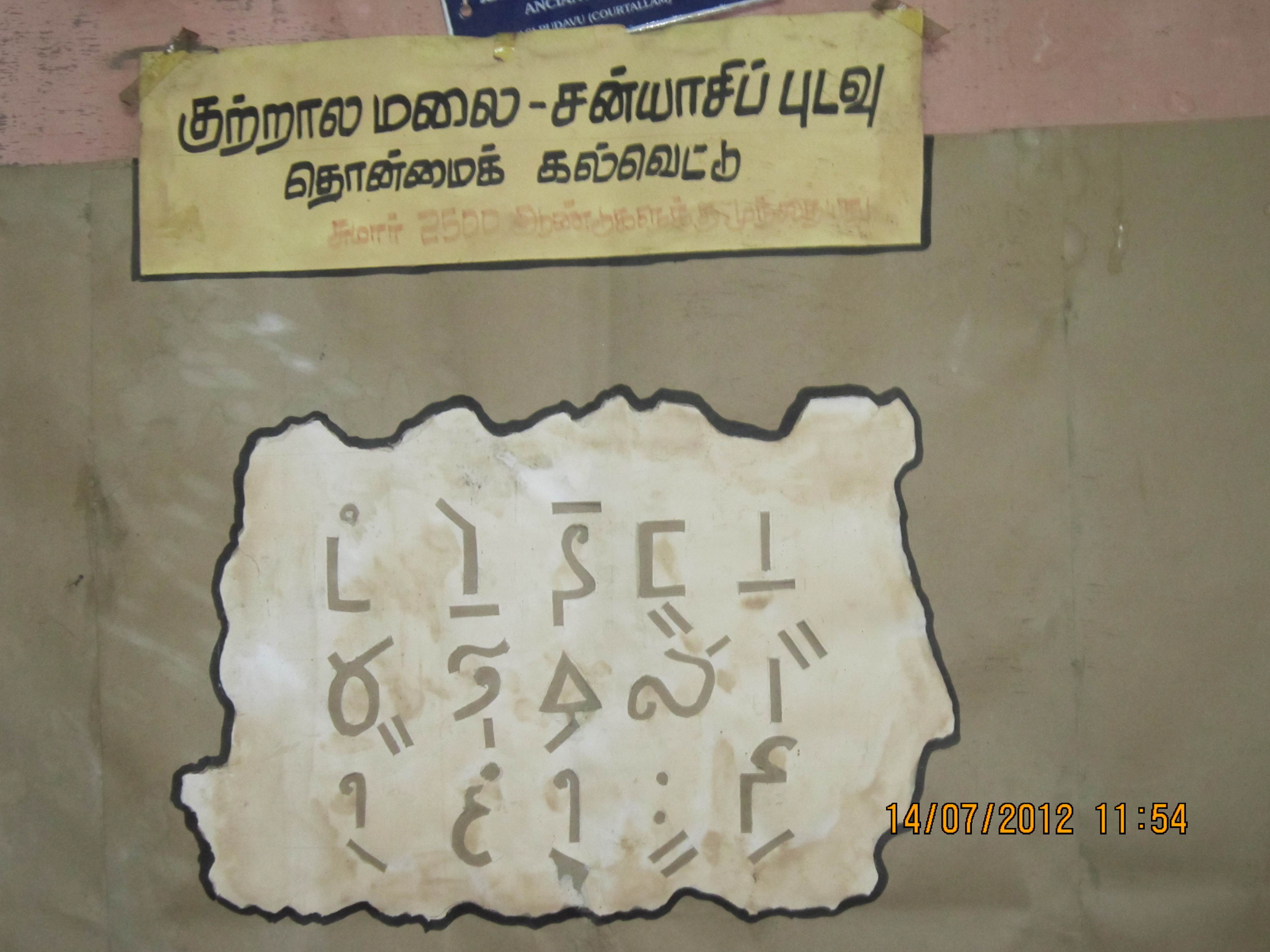 This may be a rudimentary script for Tamil brahmi script. This inscription model is now in Courtallam Archaeological museum under Tamilnadu government. For